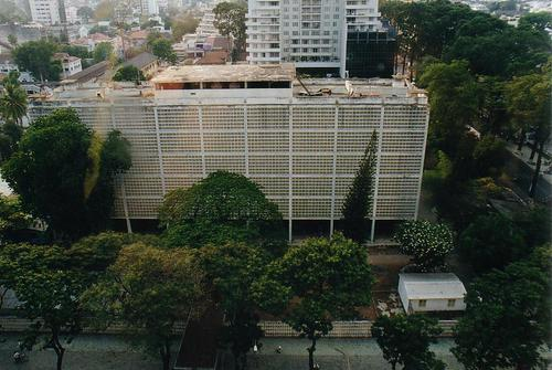 The former US Embassy, Saigon, Vietnam (1967-1975)